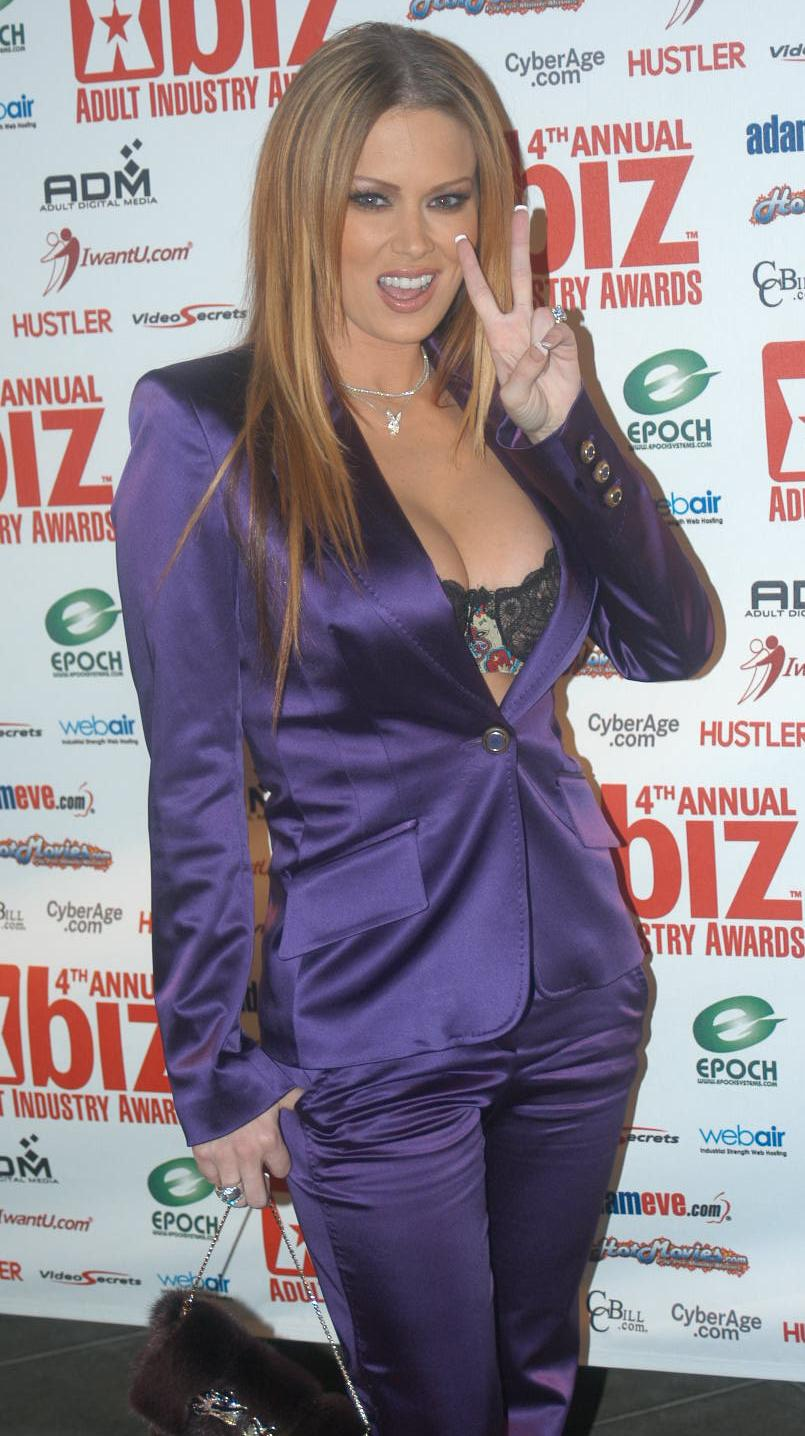 Jenna Jameson at the XBiz Awards, November 17, 2005